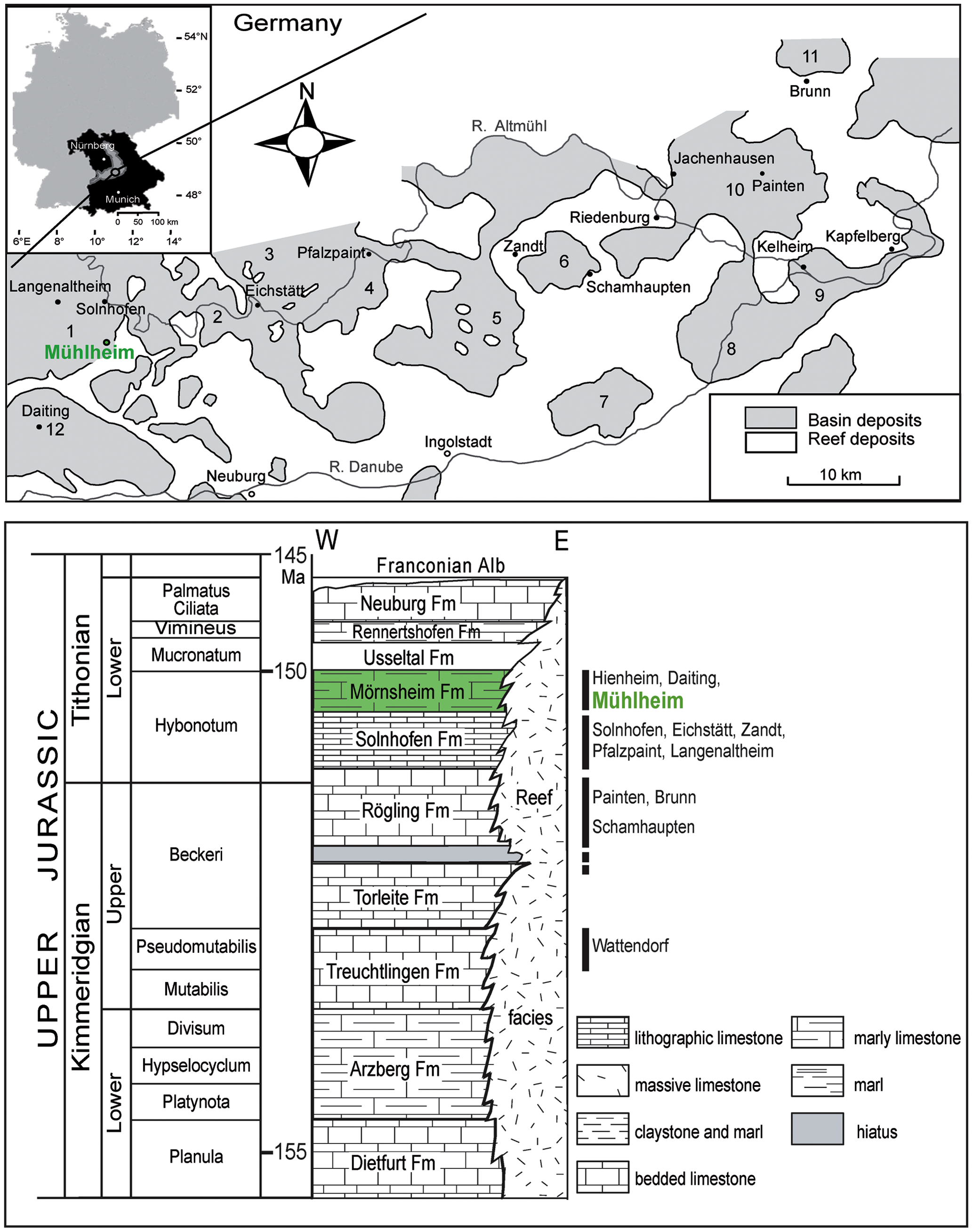 Type locality of the Upper Jurassic Sphenodont Oenosaurus muehlheimensis depicted cartographically and stratographically.